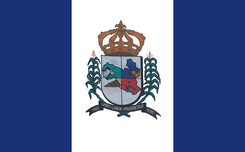 Flag of city of Cerro azul - Paraná - Brazil.